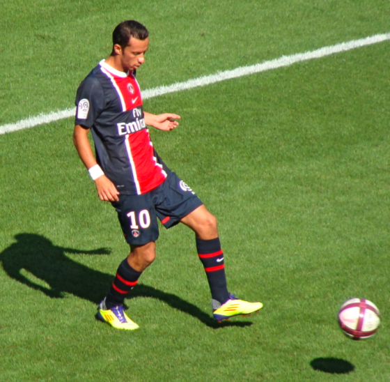 Nene (PSG / Valenciennes)